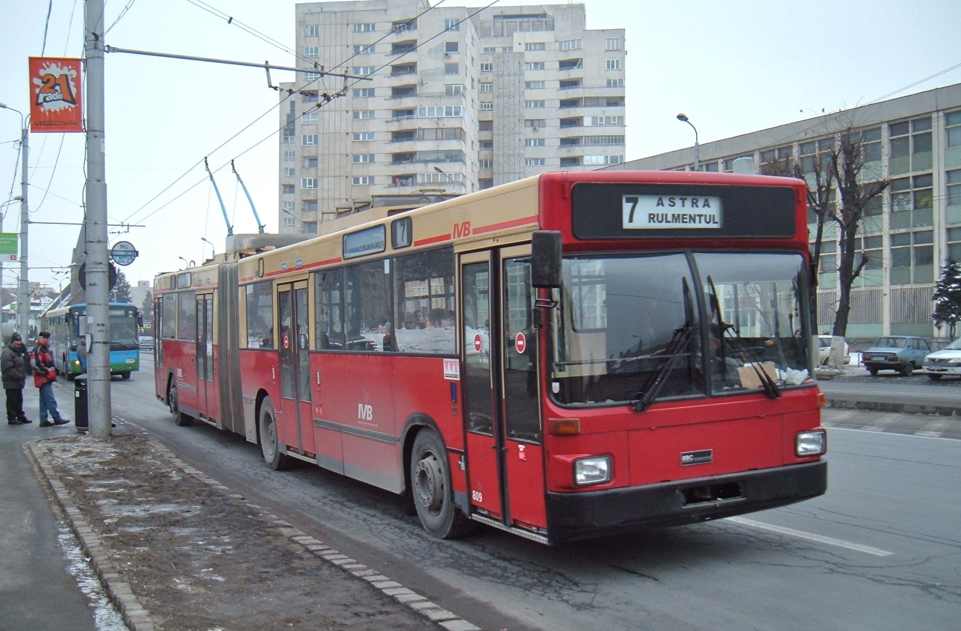 Braşov trolleybus 809 was built in 1988 by Gräf & Stift for the Innsbruck trolleybus system (in Austria). Innsbruck sold eight of its 16 high-floor trolleybuses to Romania in late 2003 – probably to a dealer in secondhand vehicles, who in turn sold them to Braşov – and in 2005 No. 809 entered service in Braşov carrying the same fleet number and still wearing the (old) Innsbruck fleet livery that it wore during its career in Innsbruck. In this 2006 photo, the side of No. 809 still shows two logos for IVB, the Innsbruck transit agency. It is pictured westbound on Bulevardul 15 Noiembrie just east of Bulevardul Mihail Kogalniceanu, bound for Rulmentul, on route 7.